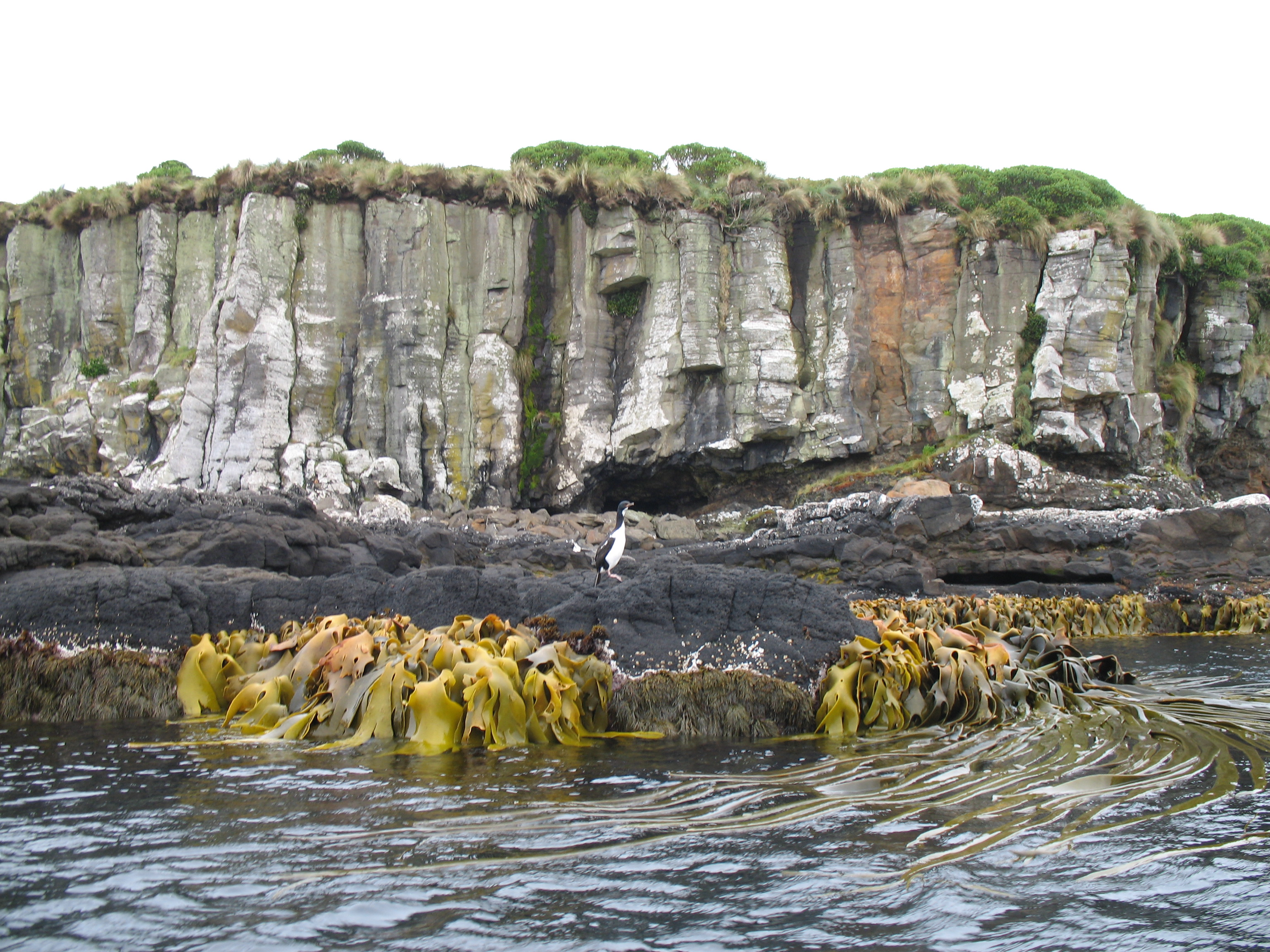 A view of the Enderby Island coast. An Auckland Shag (Phalacrocorax [campbelli] colensoi) is visible on the volcanic rocks above the kelp (Durvillaea potatorum).